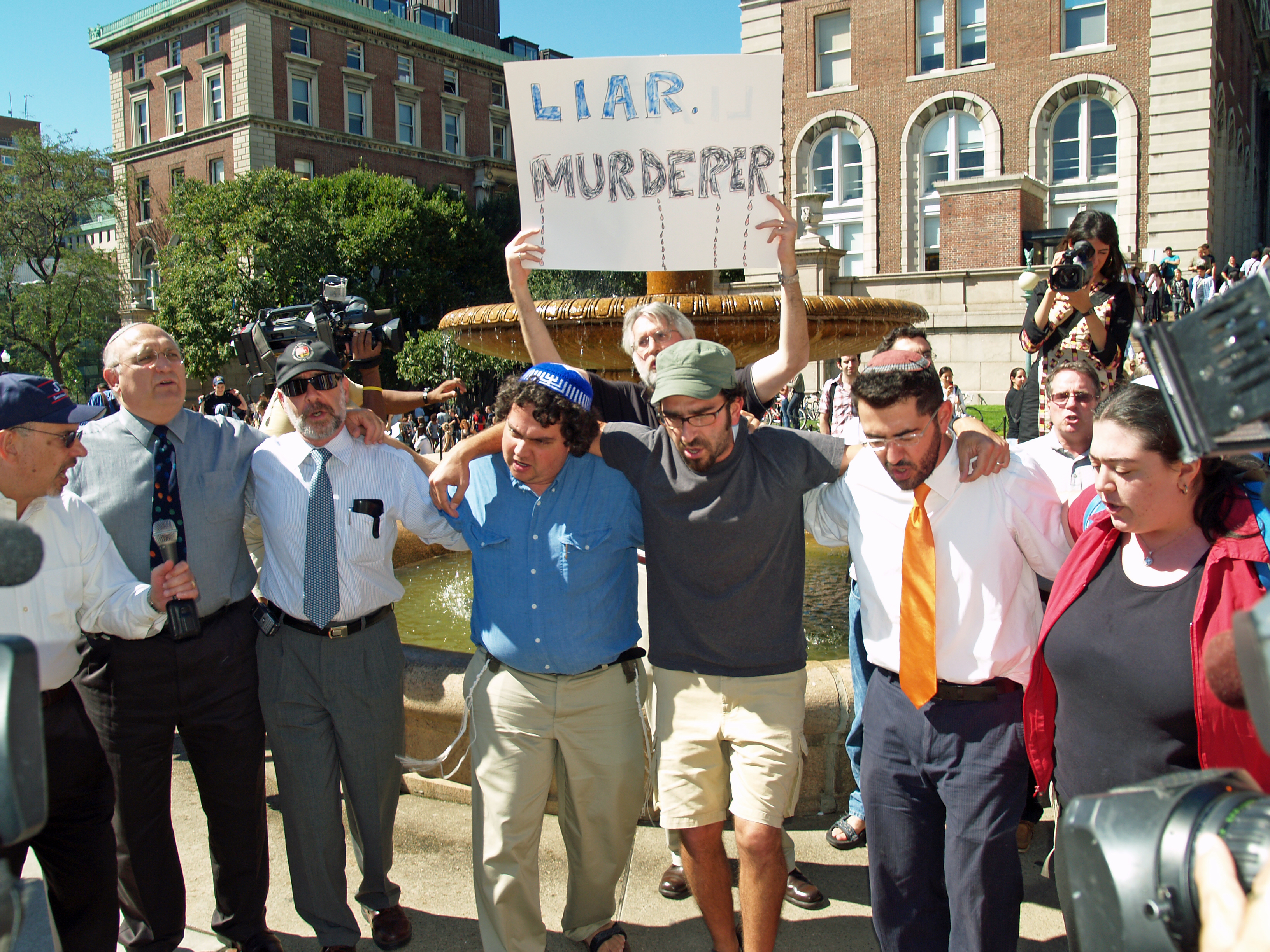 Jewish people singing a protest song on Columbia University's campus when Mahmoud Ahmadinejad was there to speak.